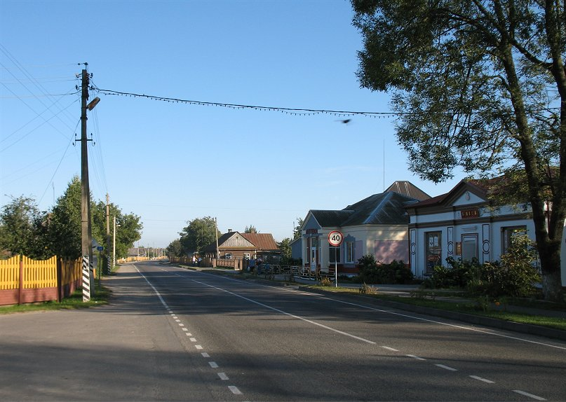 Road view in downtown of Turov, Gomel Region, Belarus.